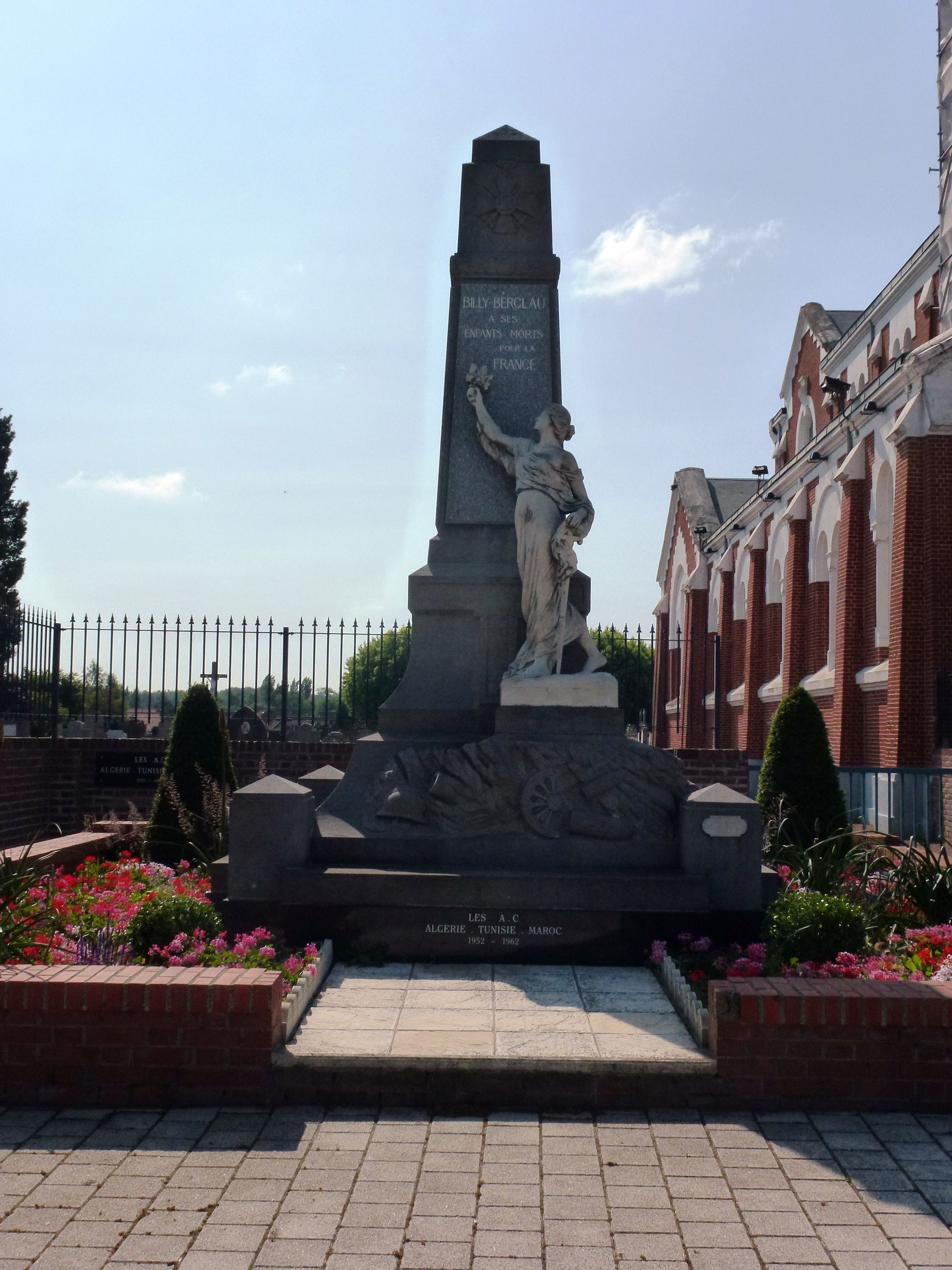 Billy-Berclau (Pas-de-Calais) monument aux morts